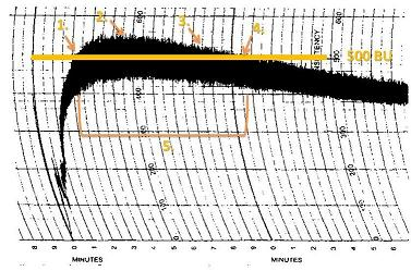 Farinograph